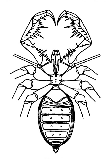 A monograph of the terrestrial Palaeozoic Arachnida of North America